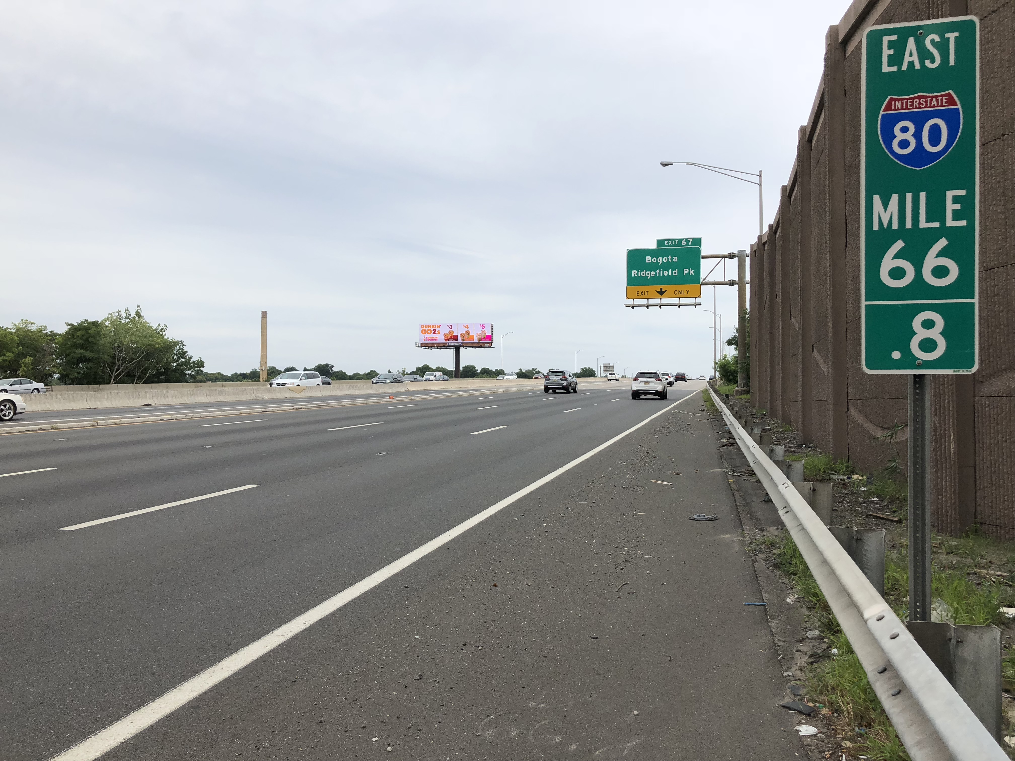 View east along Interstate 80 (Bergen-Passaic Expressway) just east of Exit 66 in Hackensack, Bergen County, New Jersey